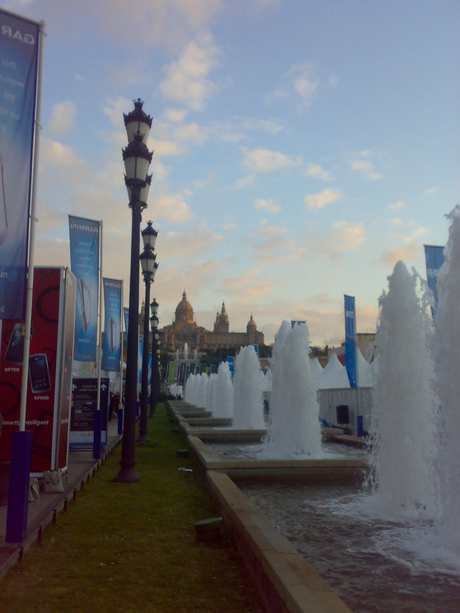 Fira de Barcelona, during GSMA World Mobile fair 2008